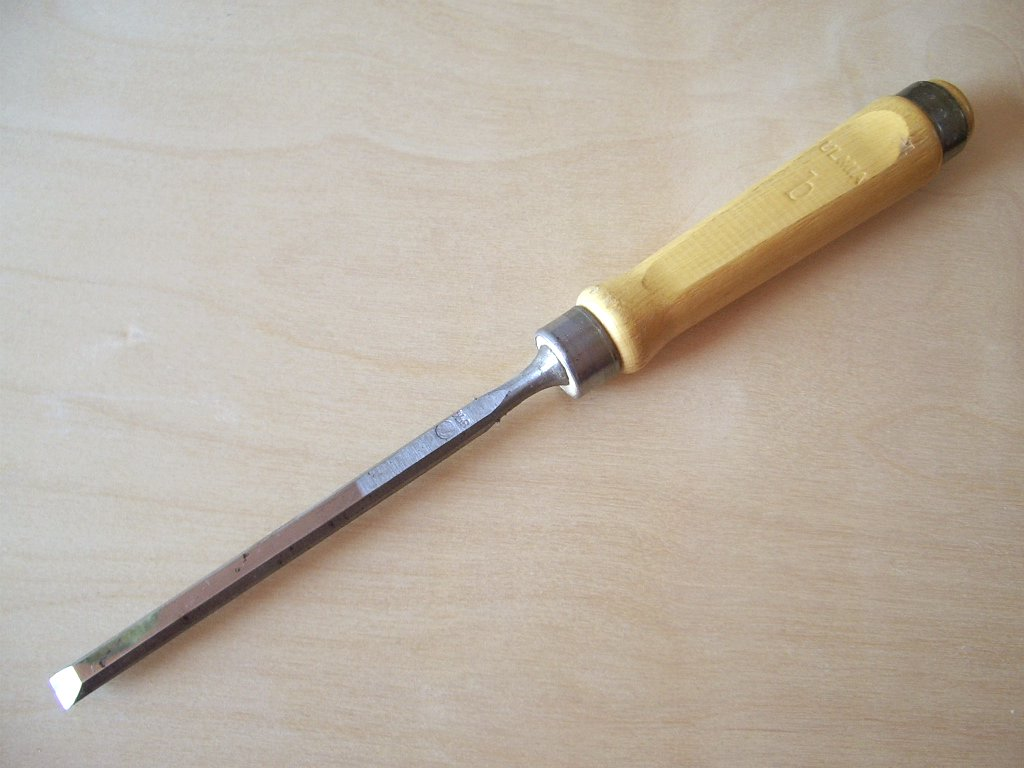 Wood chisel 8 mm